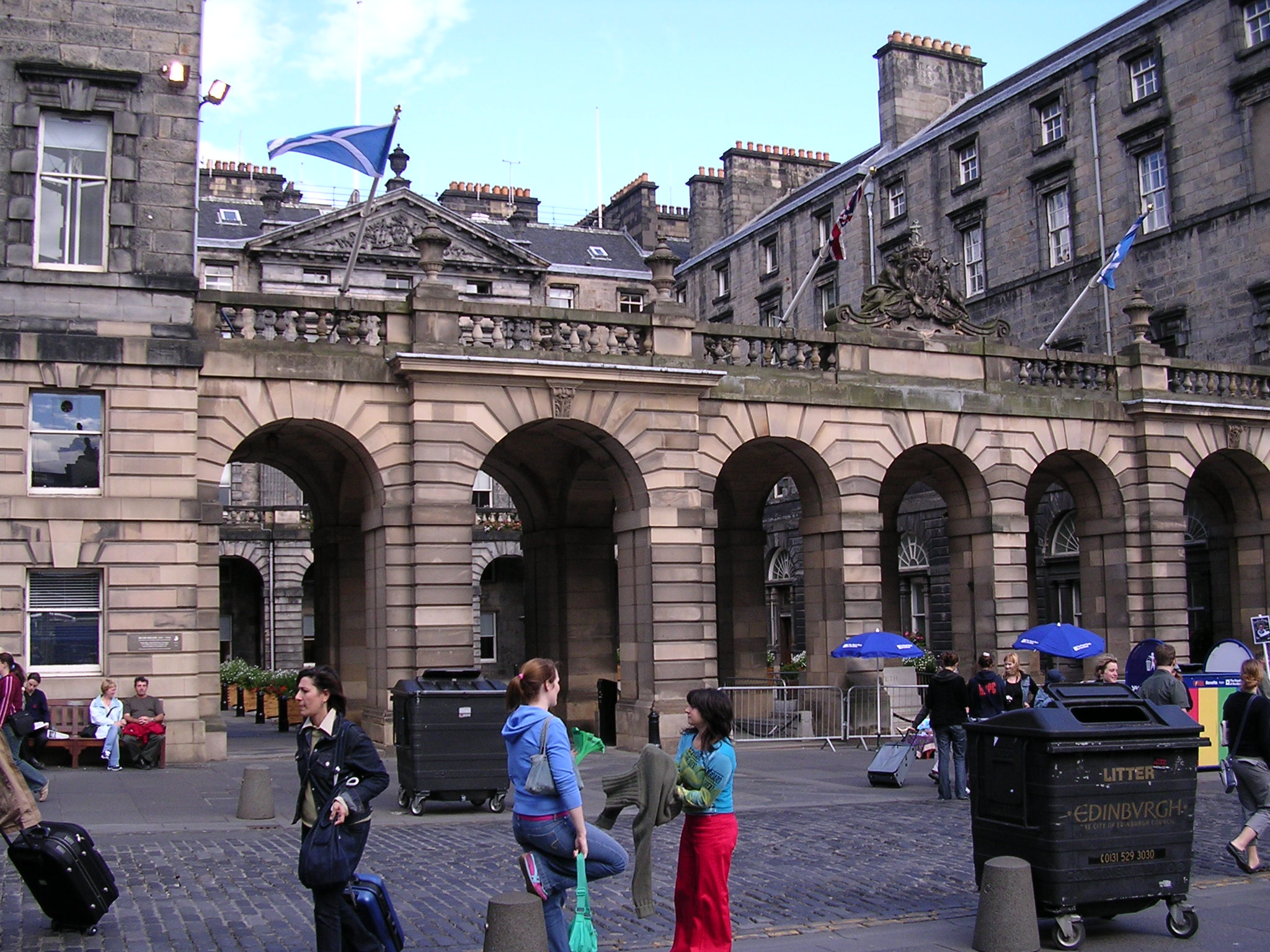 Edinburgh City Chambers. Photographed by myself, August 2004.